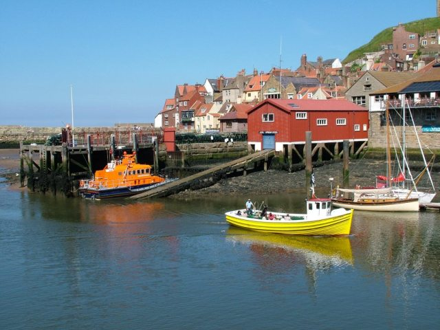 Whitby Lifeboat Station. A pleasure craft returns to the harbour past the lifeboat station